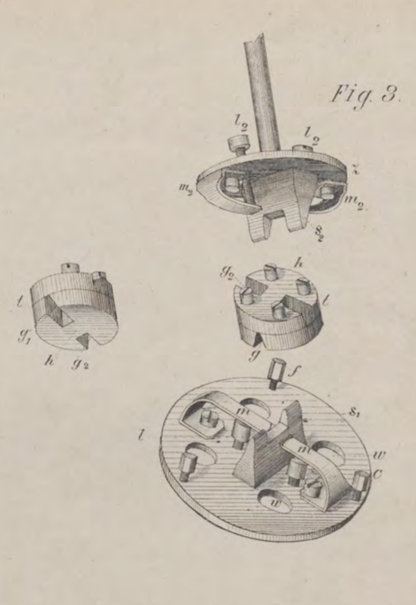 Kamerlingh Onnes"Nieuwe bewijzen voor de aswenteling der aarde" p.313 Fig.3